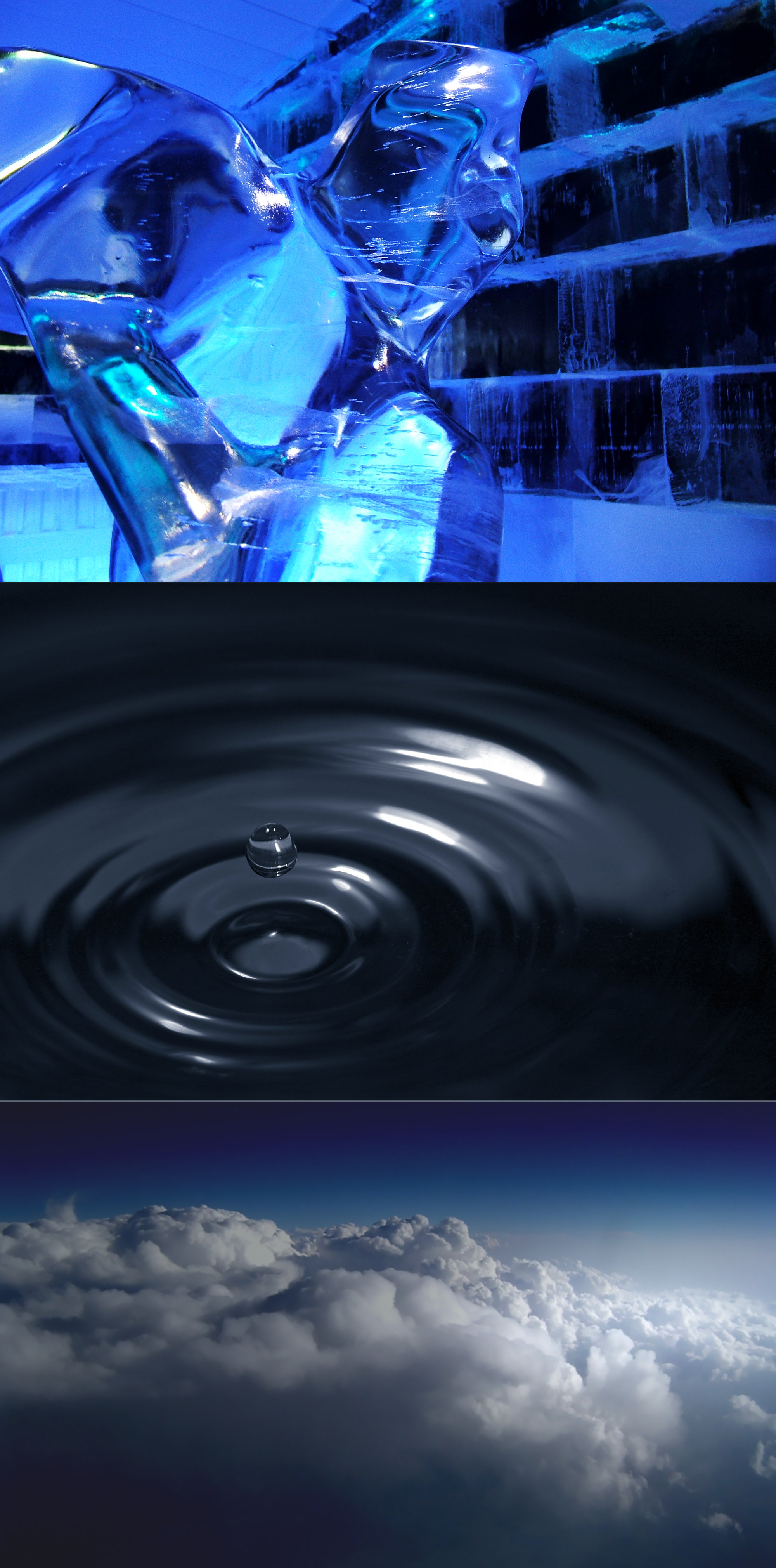 Sculpture in an ice bar in stockholm, SwedenA water dropA color-enhanced version of an aerial photograph of Stratocumulus perlucidus clouds; taken from the rear seat of a Northwest Airlines Airbus A320 flying over the midwestern United States, en route from Los Angeles, CA to Minneapolis/St. Paul, MN.